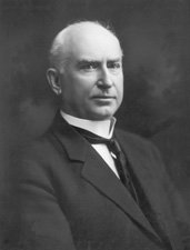 John Clarke Sen/Gov official portrait